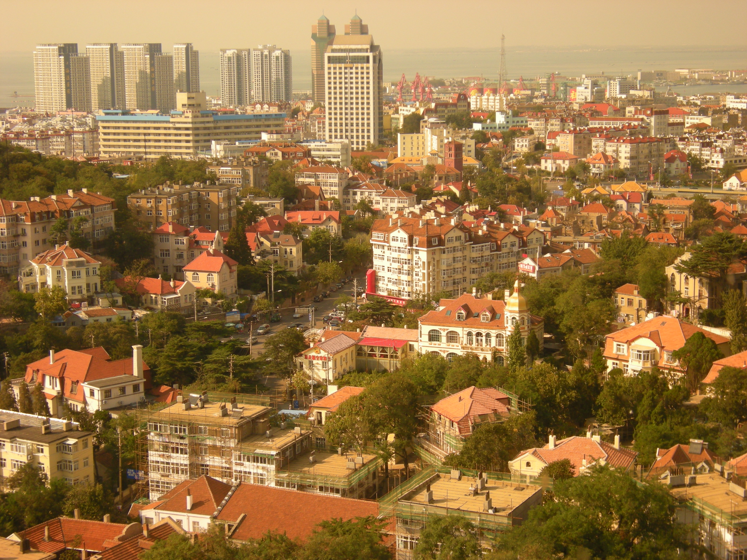 City_View_Of_Qingdao